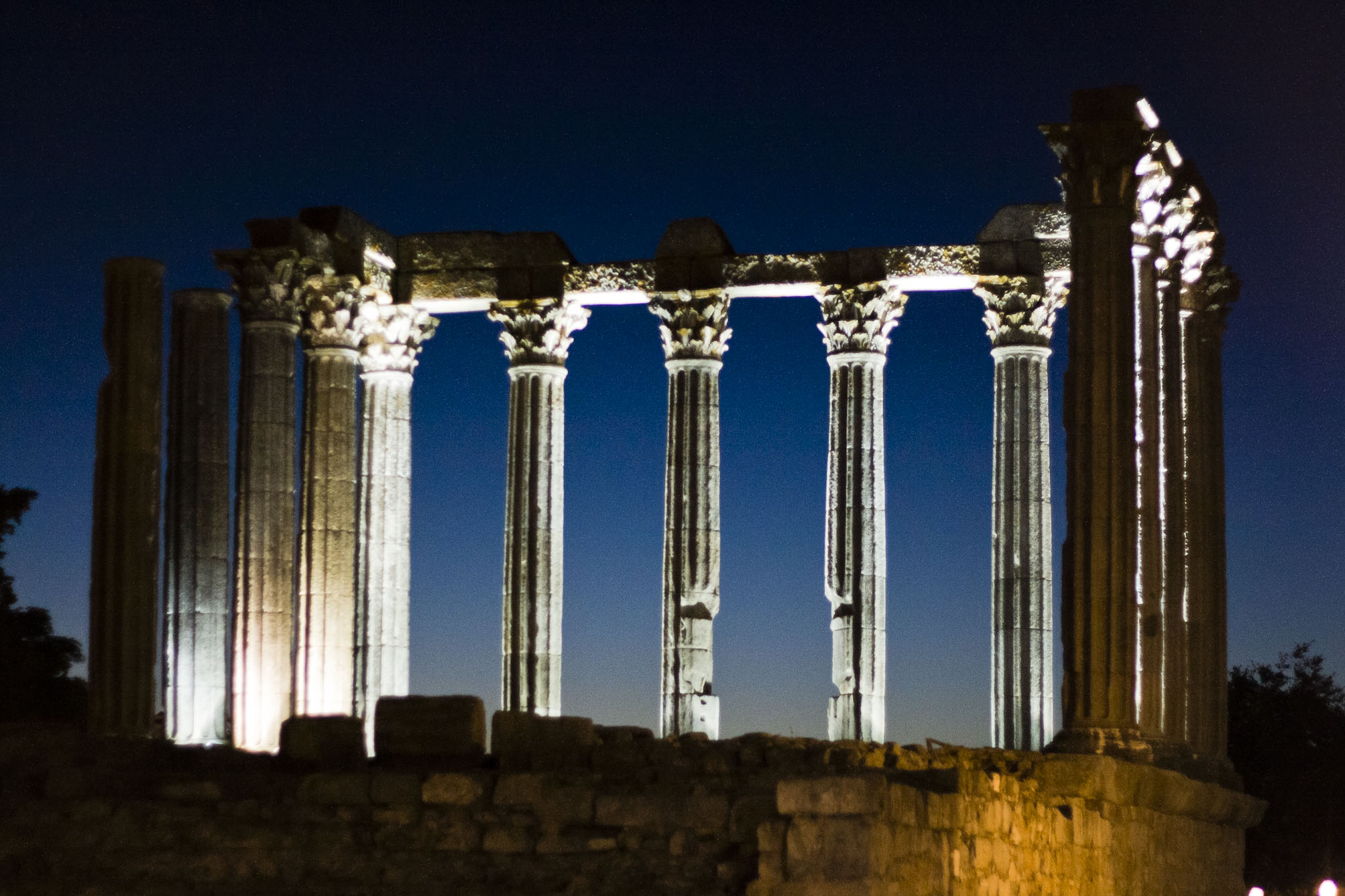 Evora roman temple at sunset